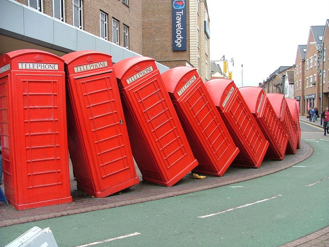 A dozen phoneboxes and not one working!